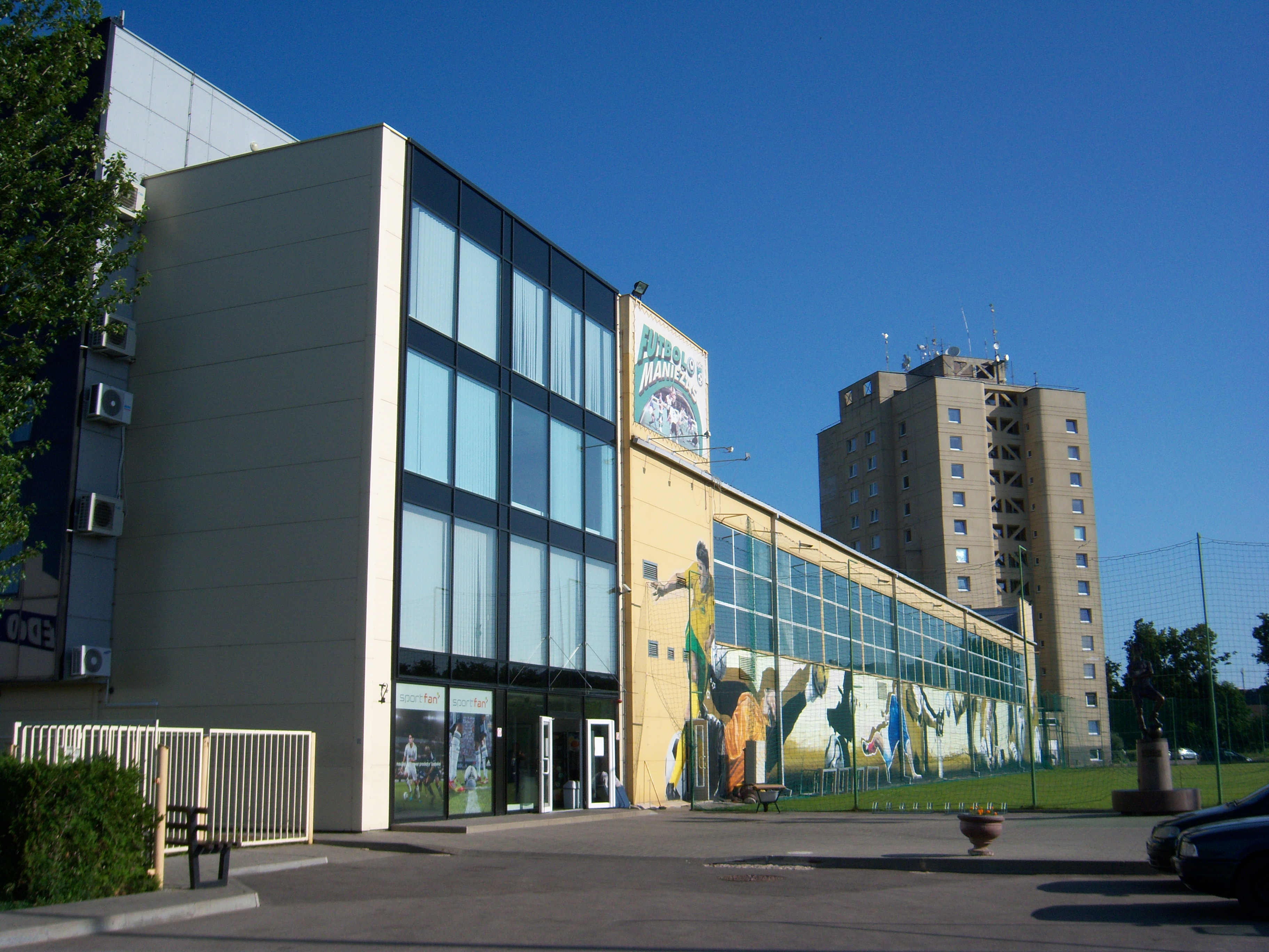 Football Indoor Arena, Kaunas, Lithuania